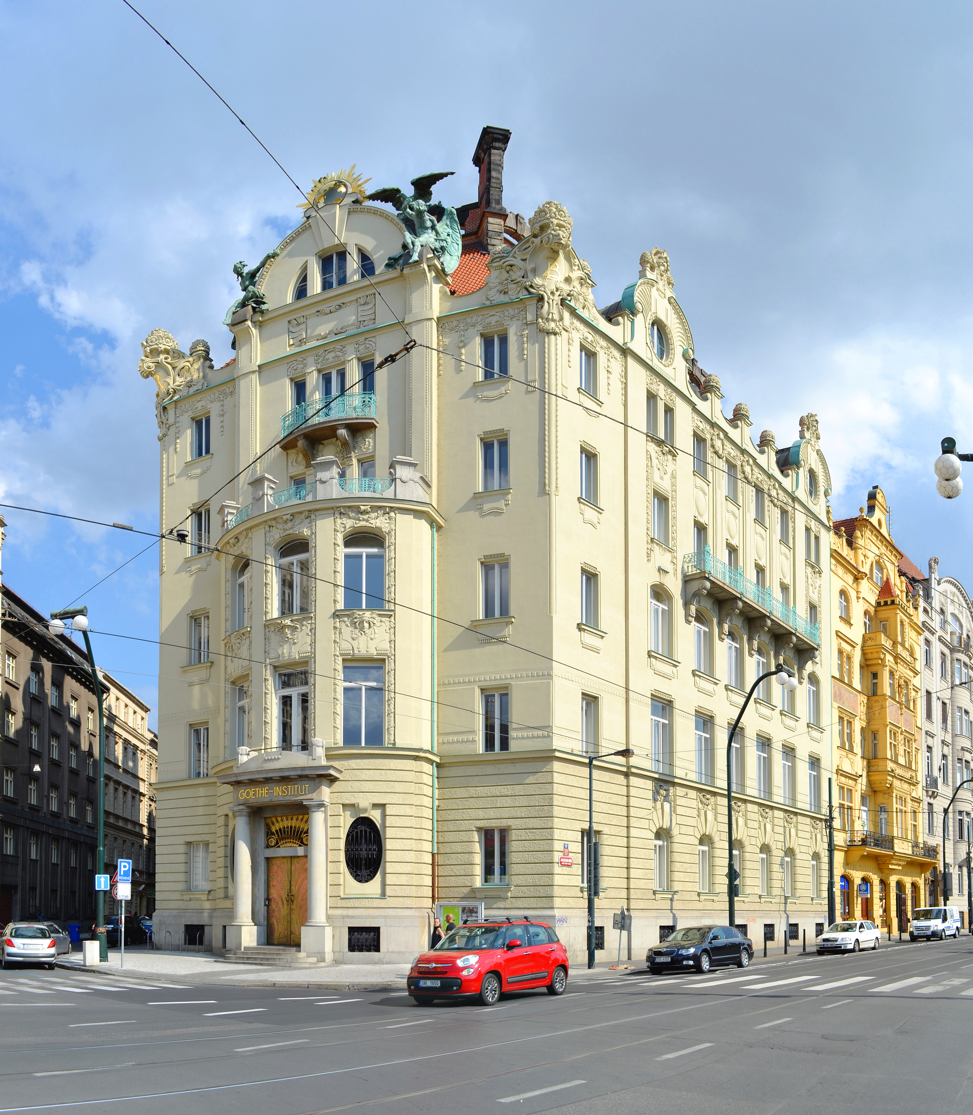 Goethe-Institut in Prague. The building is a cultural monument. former embassy of GDR in Prague. Masarykovo nábřeží 224/32, Nové Město, Prague 1, Czech Republic.